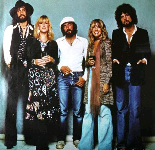 Trade ad for Fleetwood Mac's album Rumours. To better adapt it to his respective Wikipedia article, the ad was cropped and cleaned in a graphics editing program. The original can be viewed at the source below.